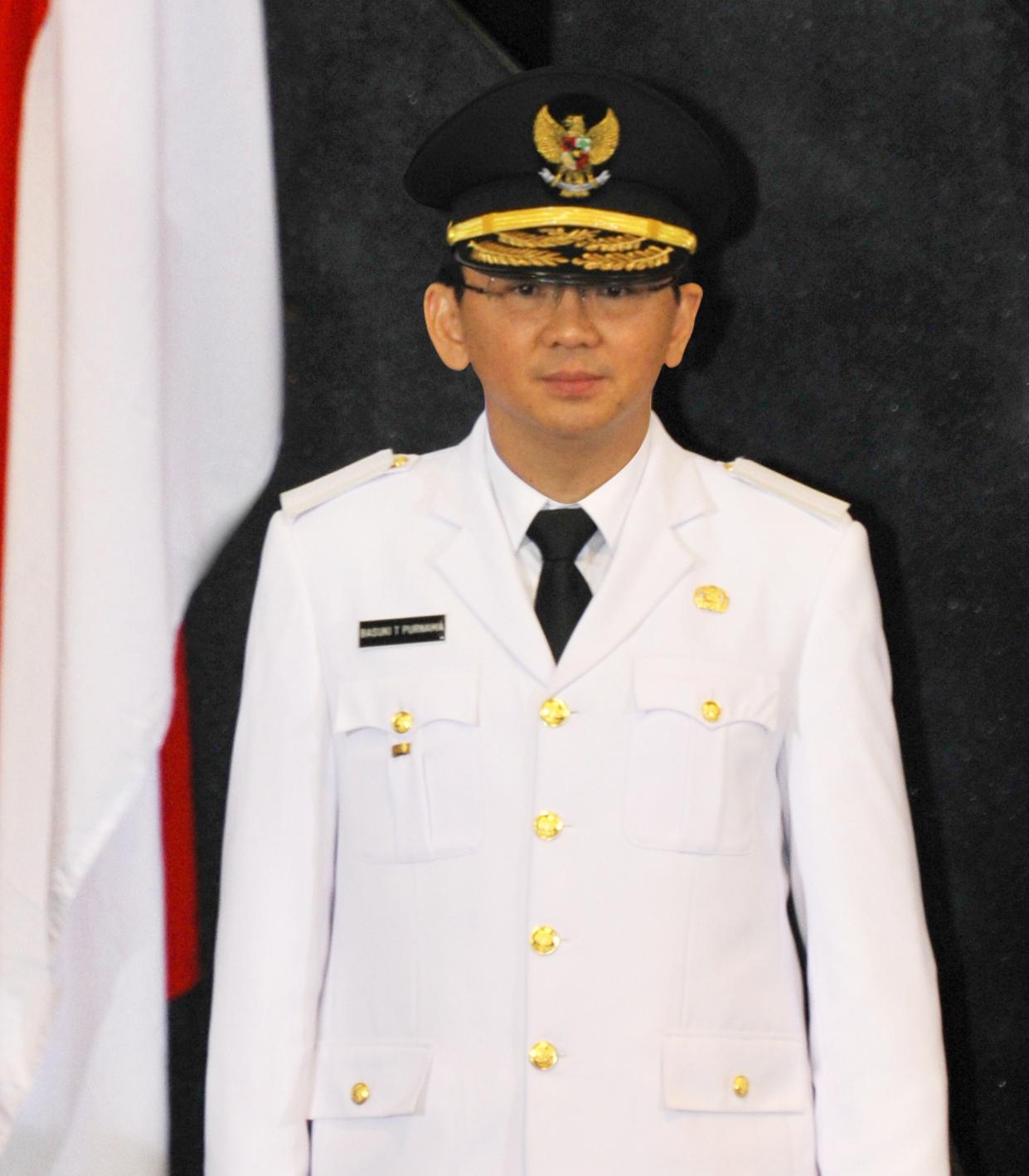 Basuki Tjahaja Purnama, Vice Governor of Jakarta, Indonesia for 2012-2017 term.